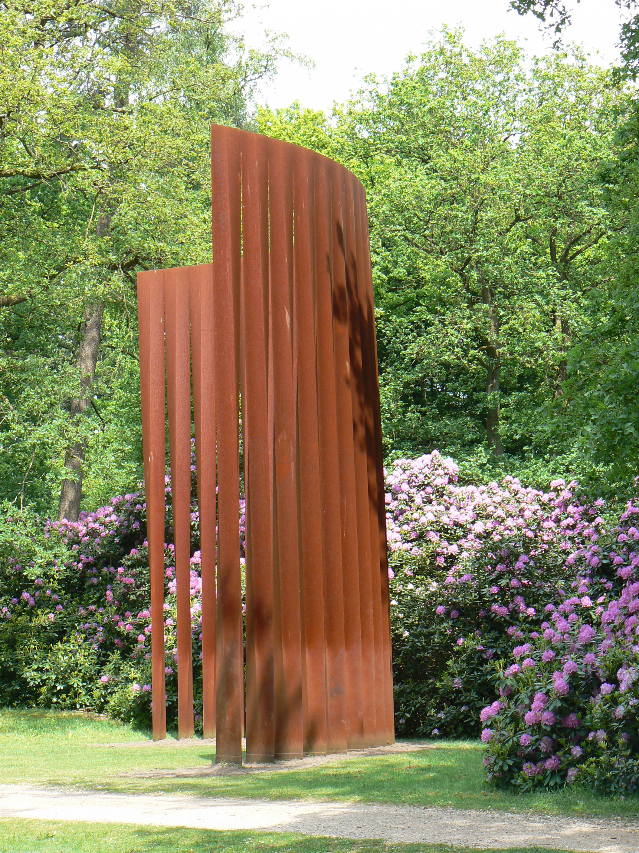 sculpture Palissade (1973-1991) by Evert Strobos in sculpturepark KMM/The Netherlands